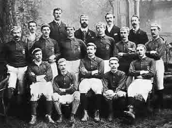 Scotland national football team.